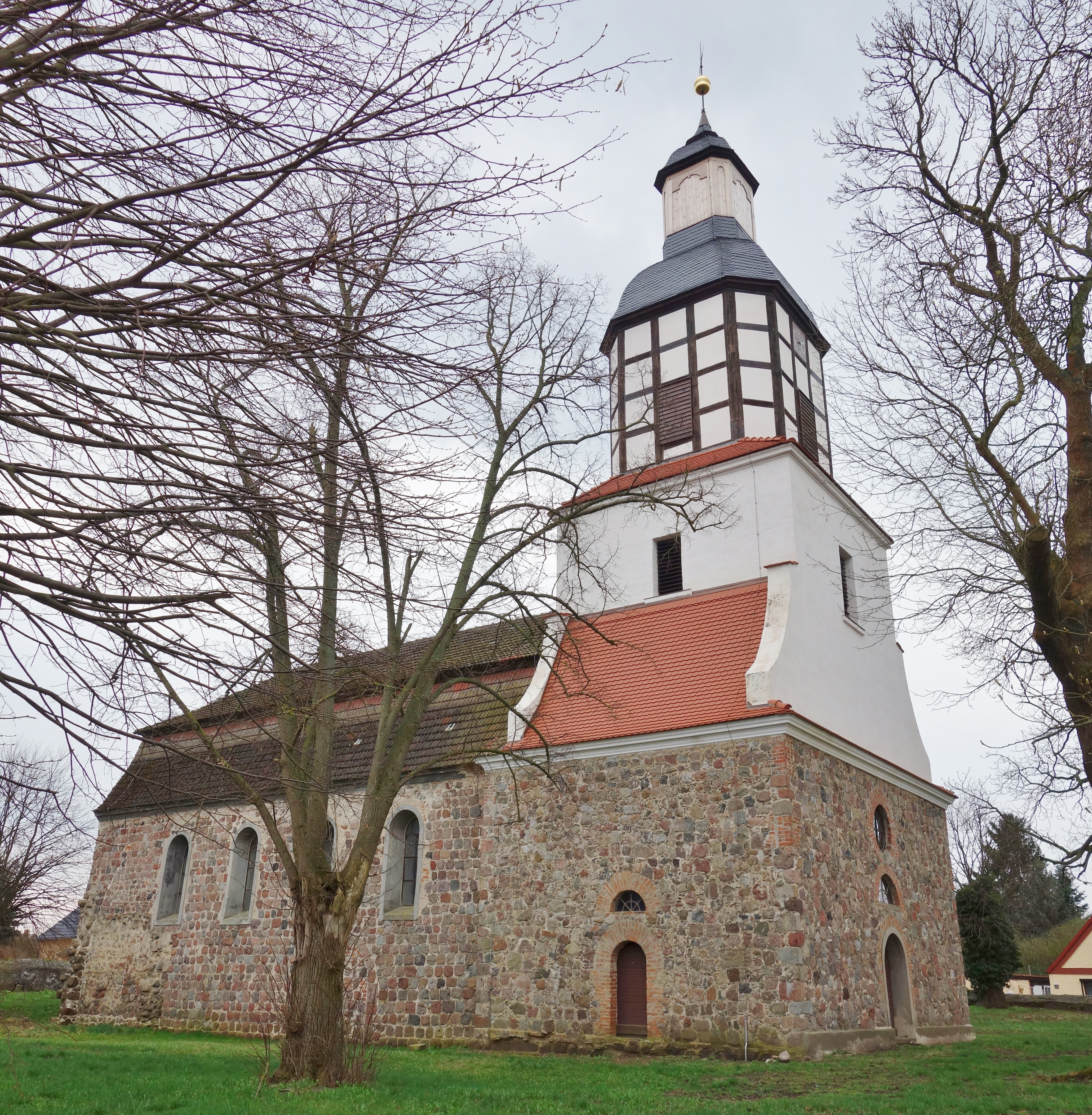 North-western view of church in Wismar, Uckerland municipality, Uckermark district, Brandenburg state, Germany